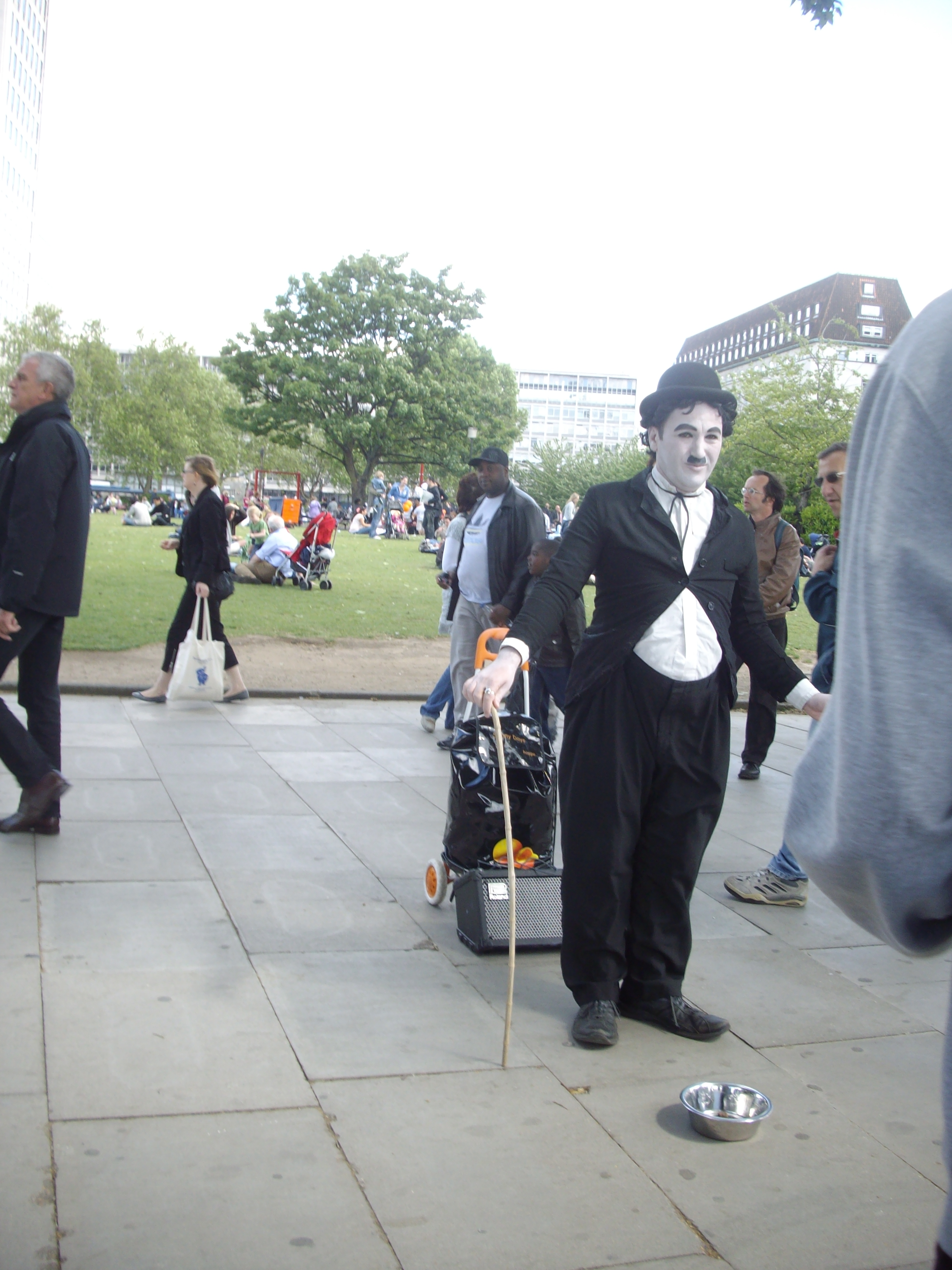 A bizarre "Statue Impersonation" akin to "Madame Tussauds" by a street artist on the River Thames walkway in London.